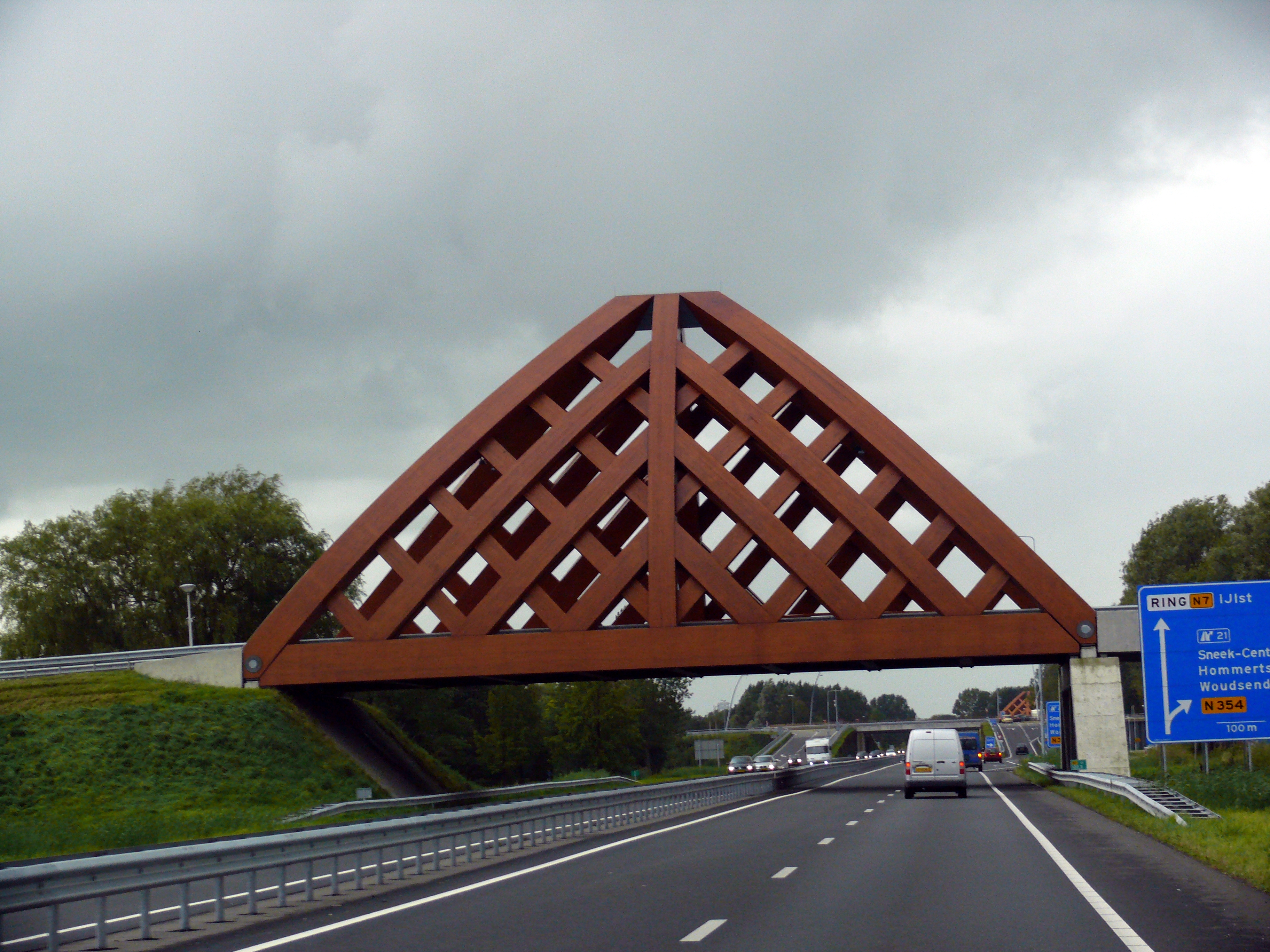 This bridge is part of the highway interchange for Stadsrondweg-zuid and Akkerwinde, located near Sneek, the Netherlands. It is made from acetylated radiata pine. The acetylated wood, under the trade name "Accoya", is produced in a factory in the Netherlands by Titan Wood, a London-based company.